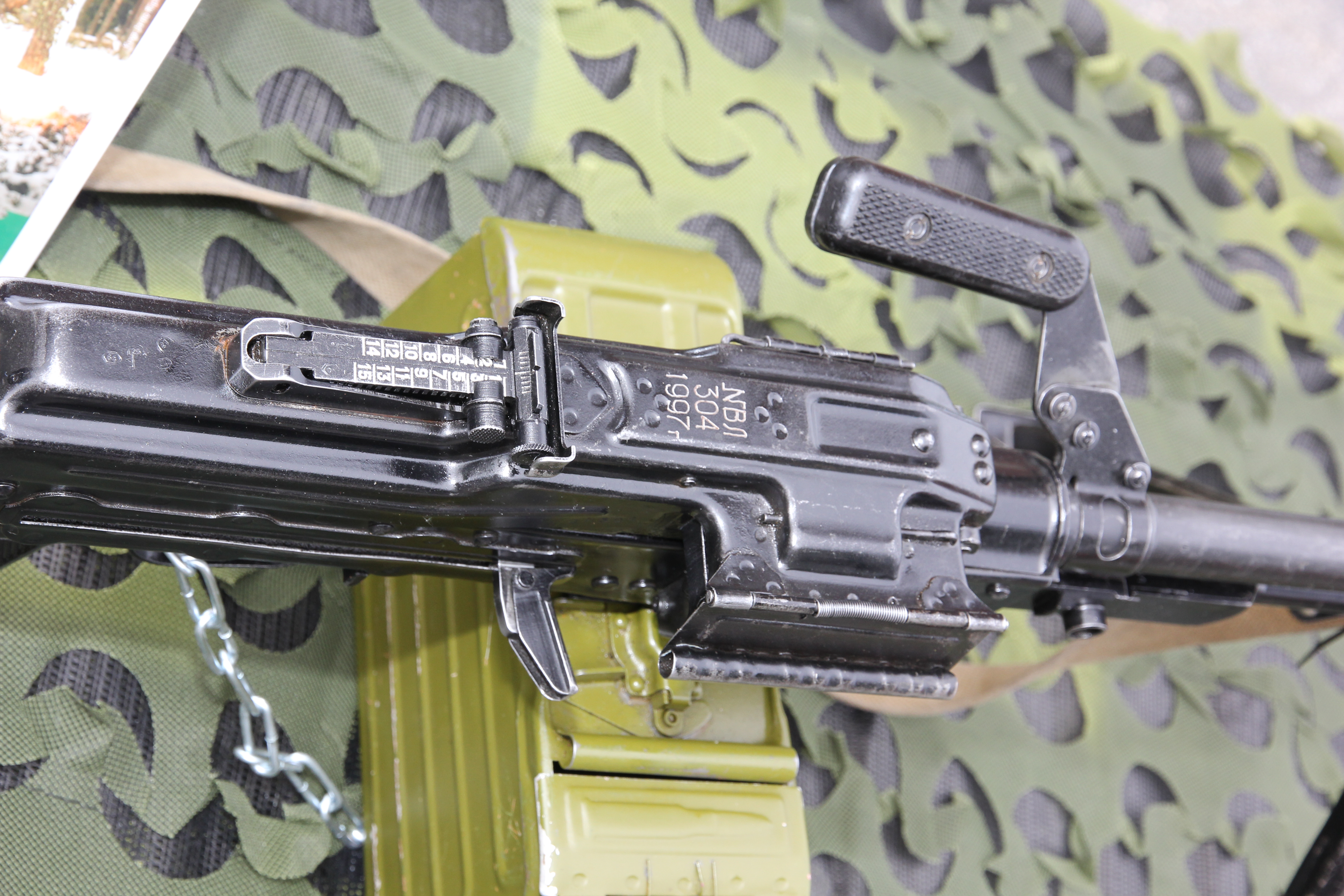 7.62 mm PKM machinegun on display during Finnish Defence Forces 2014 Flag day in Lappeenranta Rakuunanmäki.